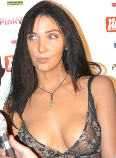 Diana Prince at Listeners Choice Awards, December 2 2006